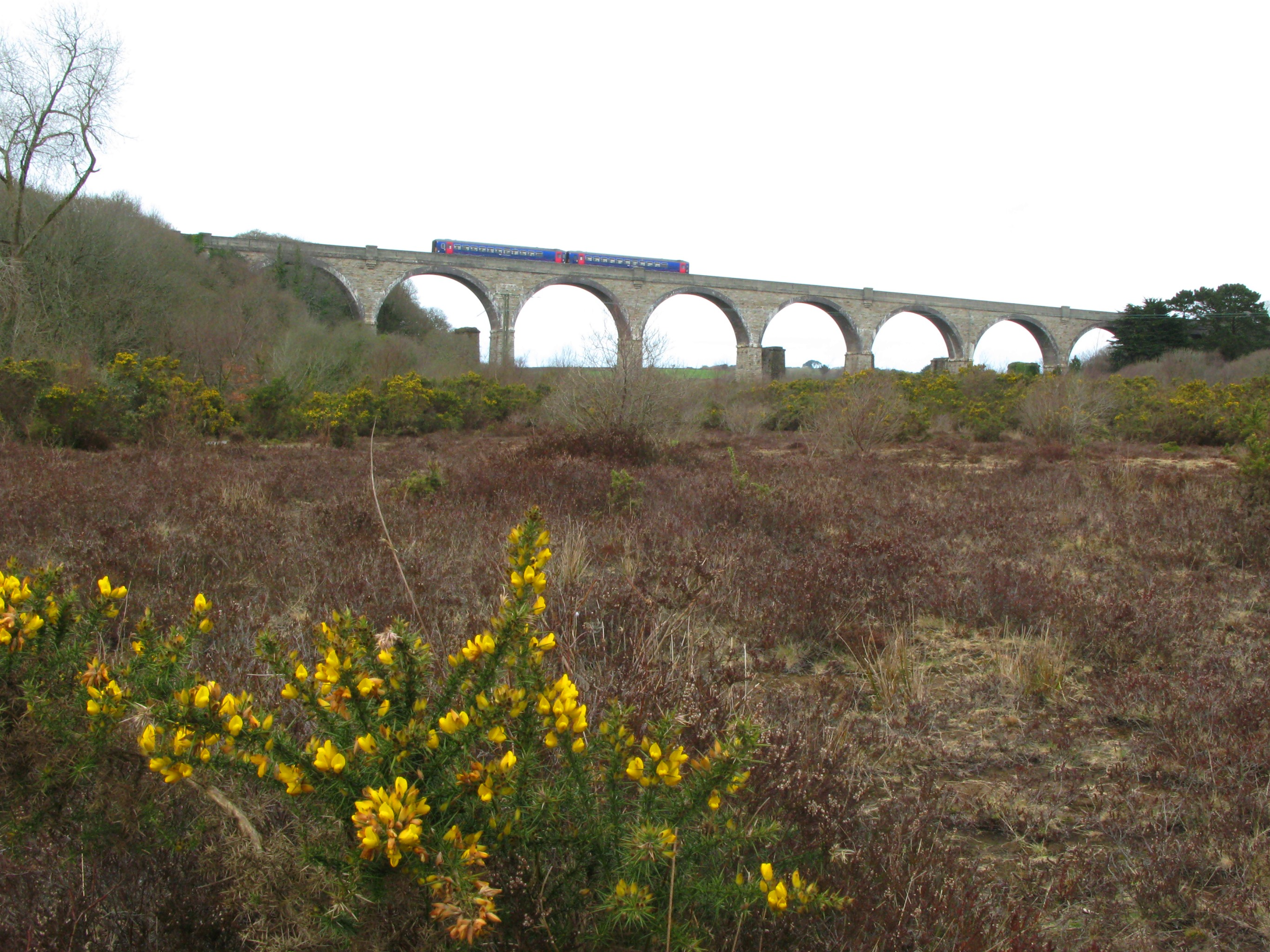 A First Great Western train from Falmouth Docks to Truro crosses carnon Viaduct north of Perranwell station on the Maritime Line in Cornwall, United Kingdom. The train is formed of two Class 153 single-car DMUs, numbers 153370 and 153369.